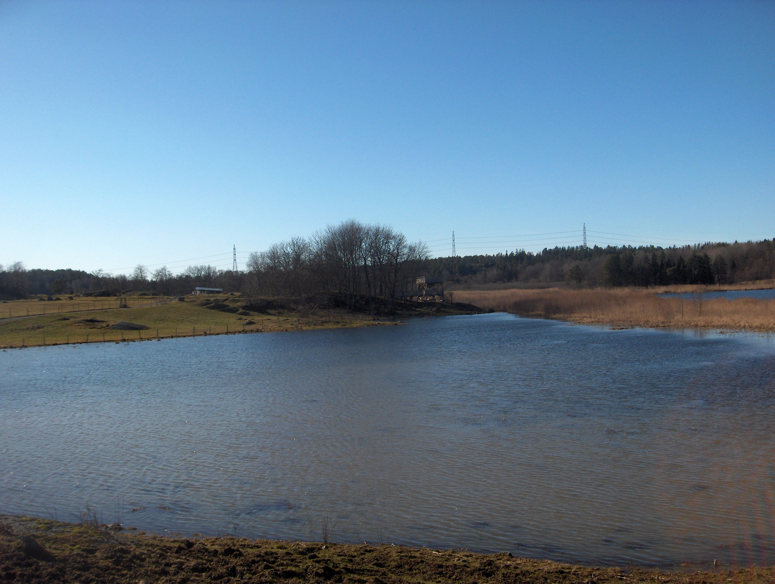 Ågestasjön ("the Ågesta lake") in Stockholm. Photographed by me in våren 2008.